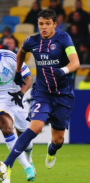 Thiago Silva